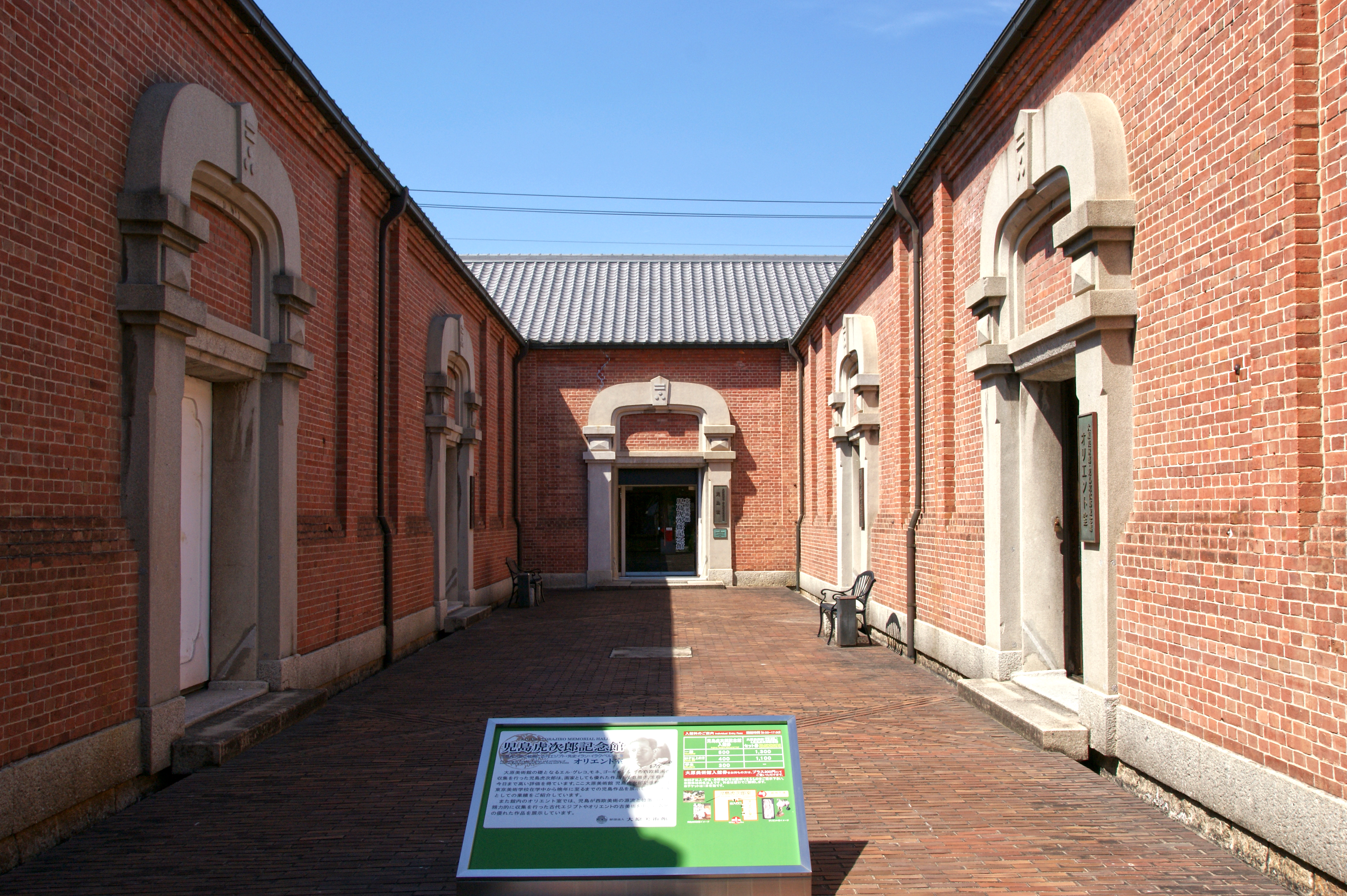 Kojima Torajiro Memorial Hall in Kurashiki Ivy Square, Kurashiki, Okayama prefecture, Japan